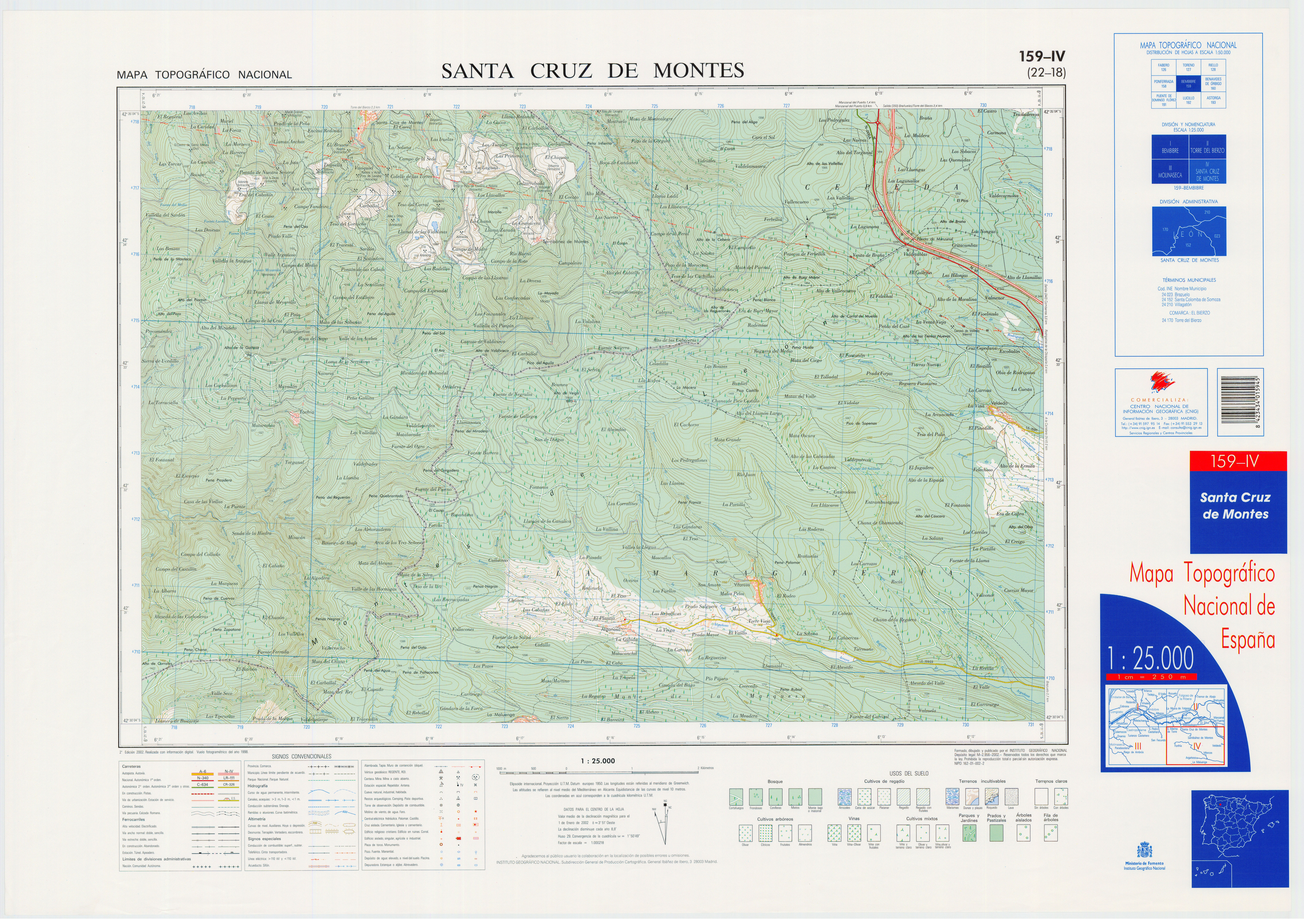 Fragment 0159c4 of the National Topographic Map of Spain in 2002 at a scale of 1:25000 printed and scanned with a resolution of 250 ppi. It shows Santa Cruz de Montes.